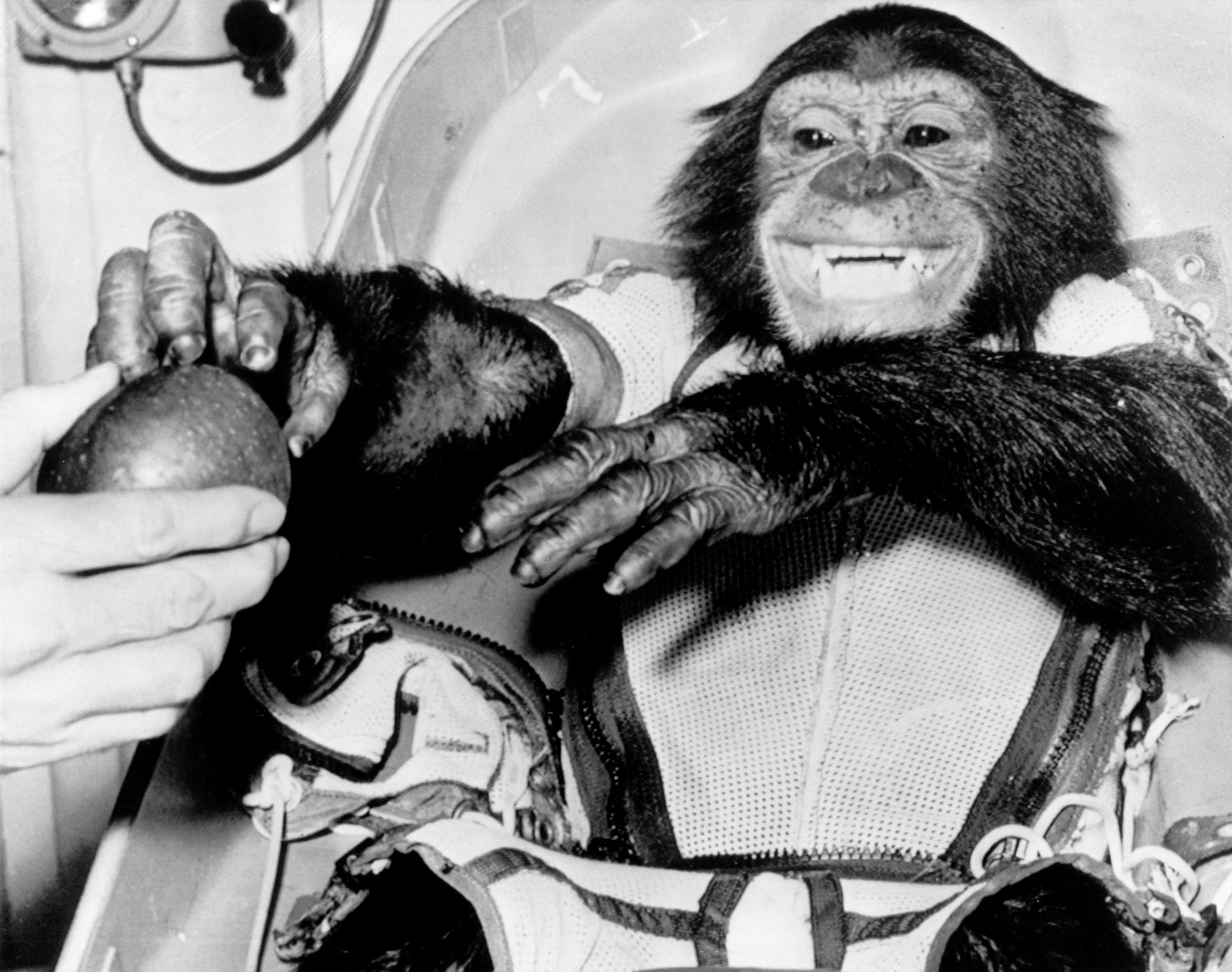 Closeup view of the chimpanzee Ham, the live test subject for the Mercury-Redstone 2 (MR-2) test flight, following his successful recovery from the Atlantic. The 420-statute mile suborbital MR-2 flight by the 37-pound primate was a significant accomplishment on the American route toward manned spaceflight.